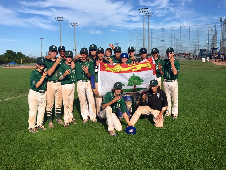 bronze